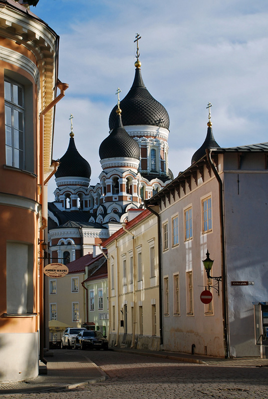 Alexander Nevsky Cathedral, Tallinn